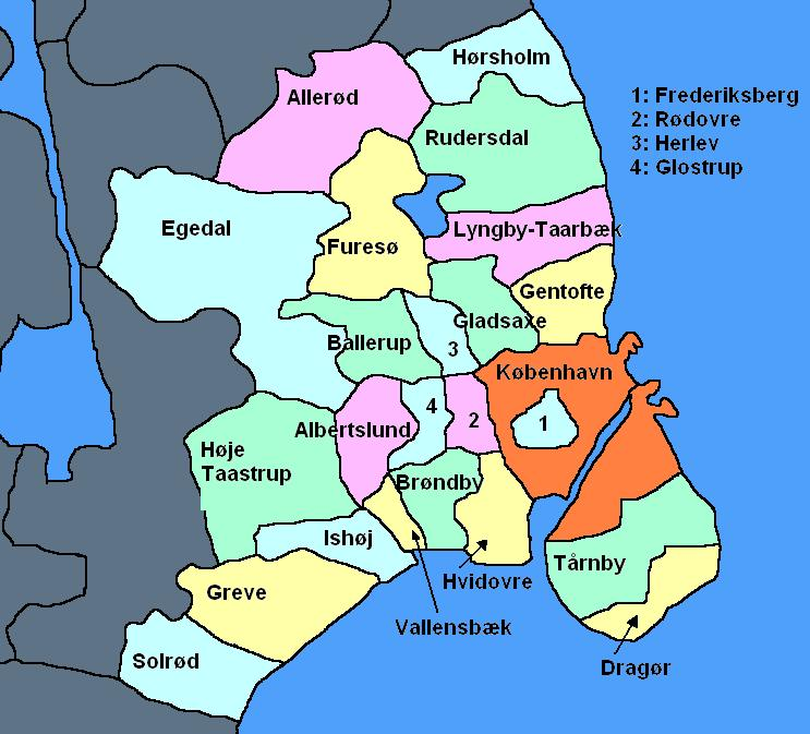 Map of central and suburban Copenhagen with municipality names